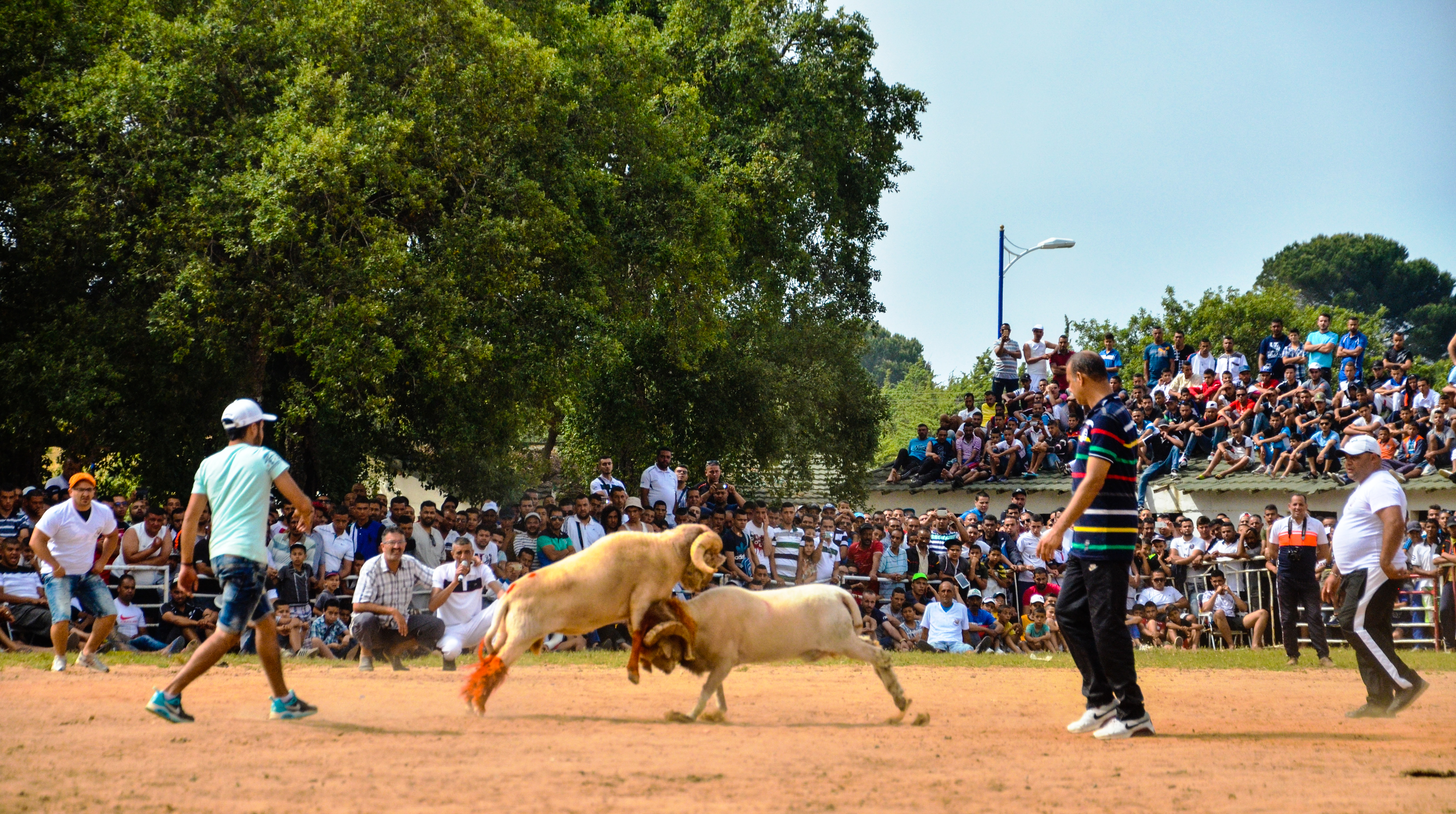 This is an image of "African people at work" from Algeria